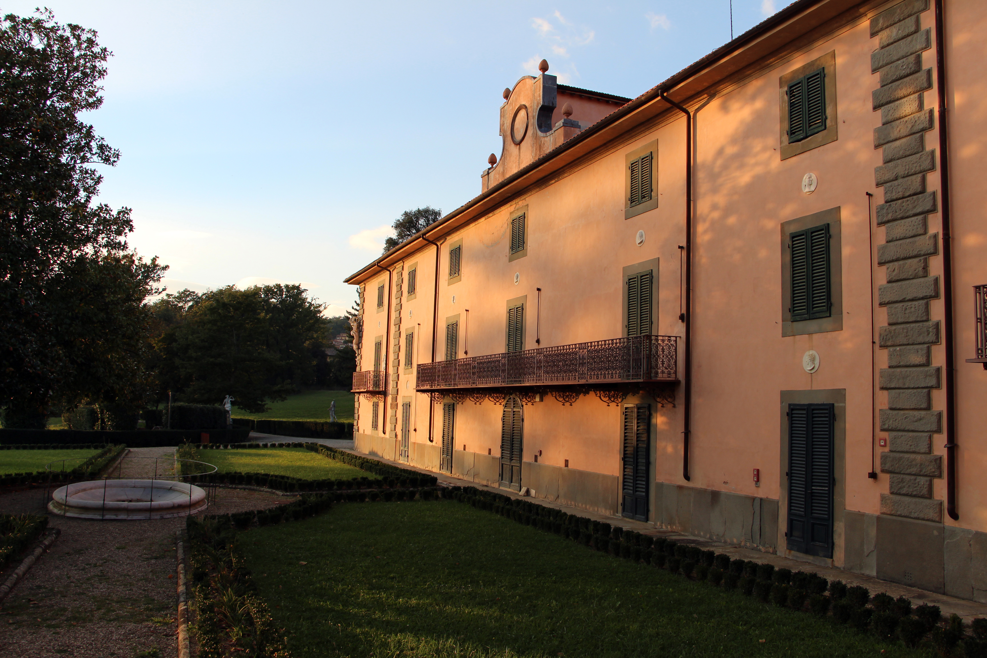 Villa Demidoff (Pratolino)